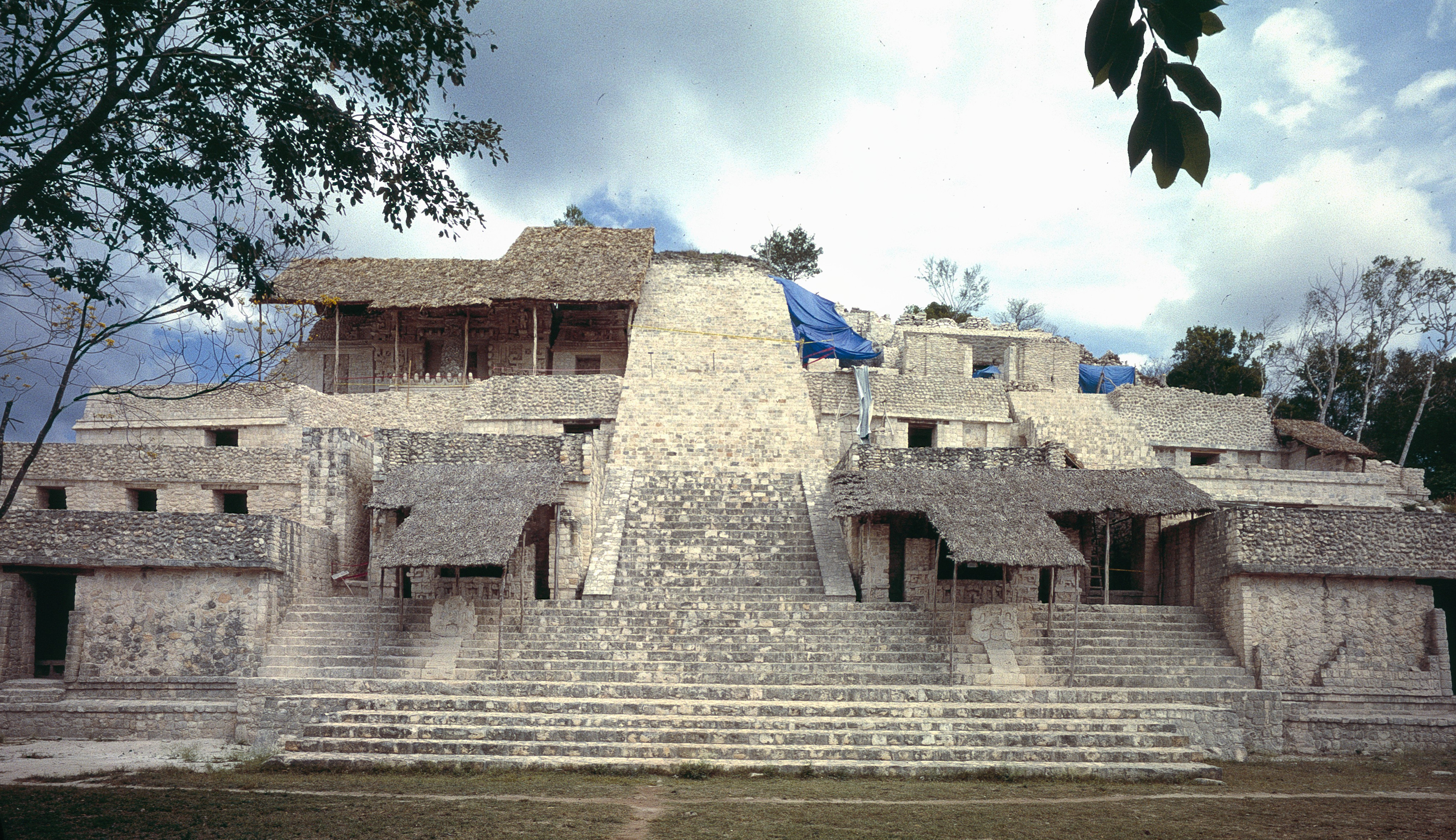 Ek' Balam, Yucatan, Mexico: structure 1